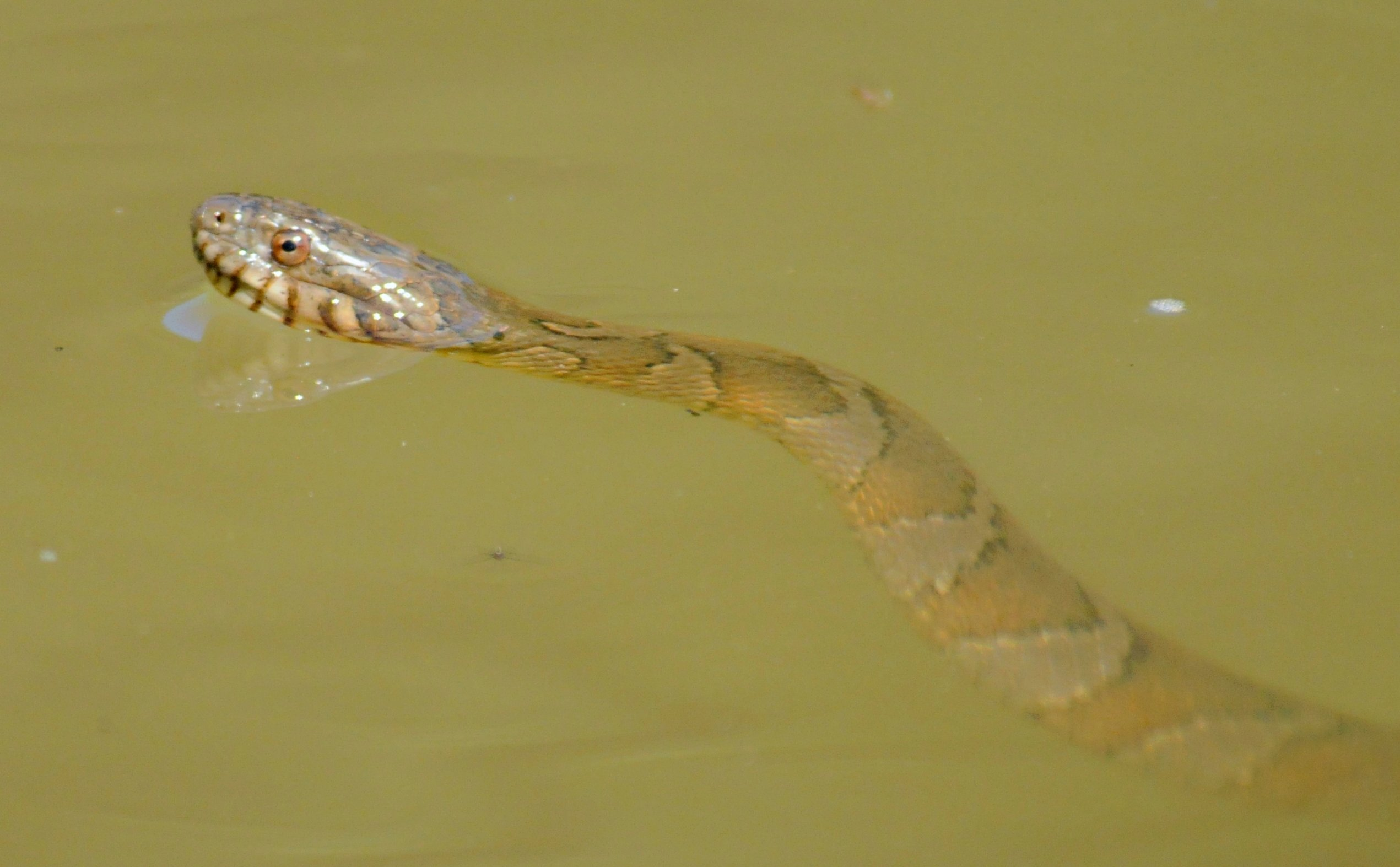 Northern Watersnake in Potomac at Harpers Ferry, MD, USA